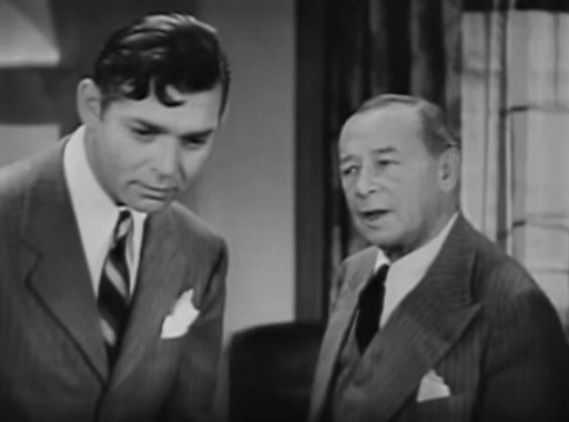 Clark Gable & William Collier Sr. in Cain and Mabel - trailer (cropped screenshot)